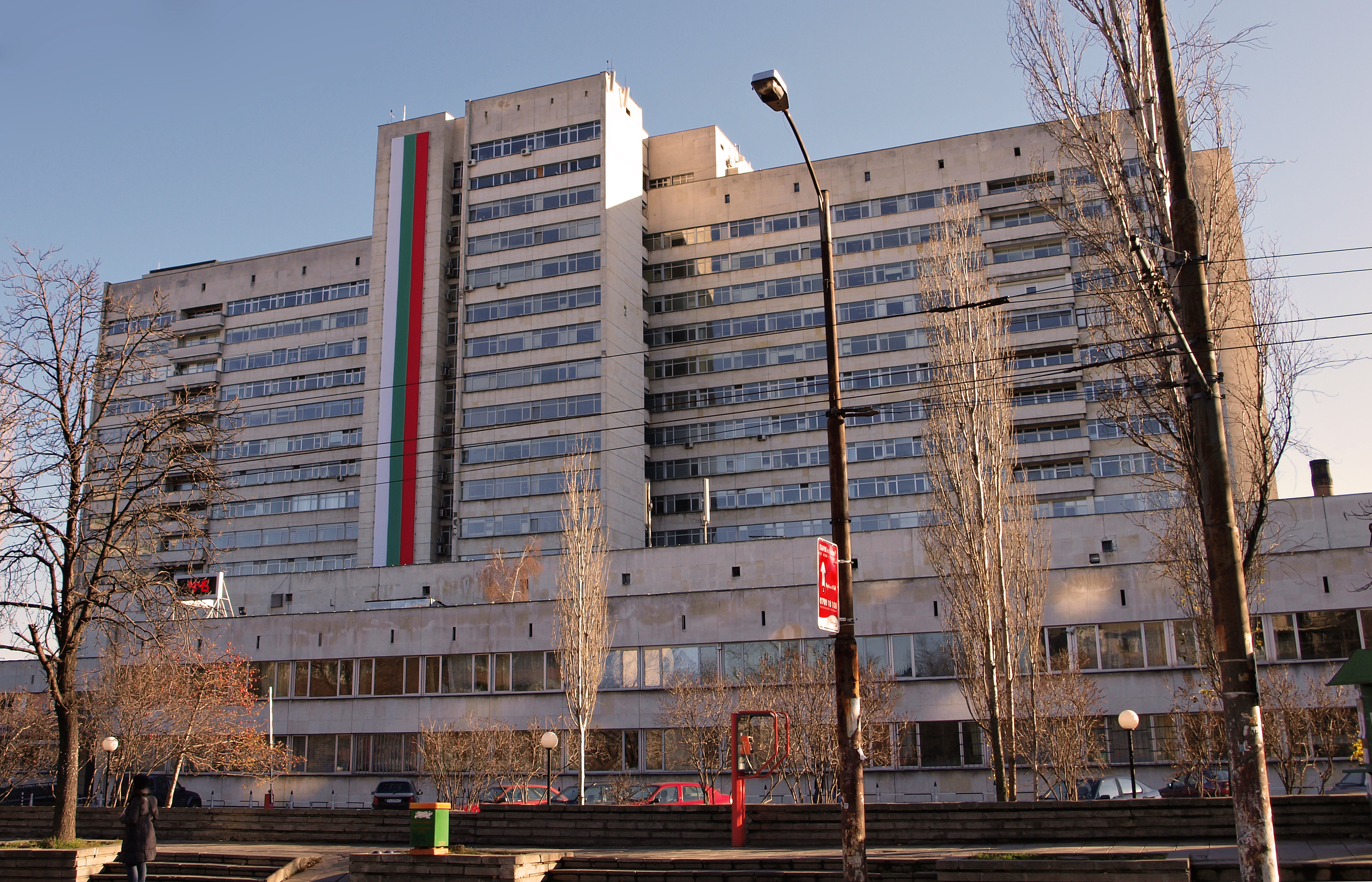 The Military Medical Academy in Sofia, Bulgaria